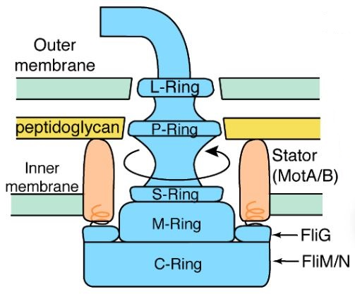 A diagram of a bacterial flagellum showing various components. From